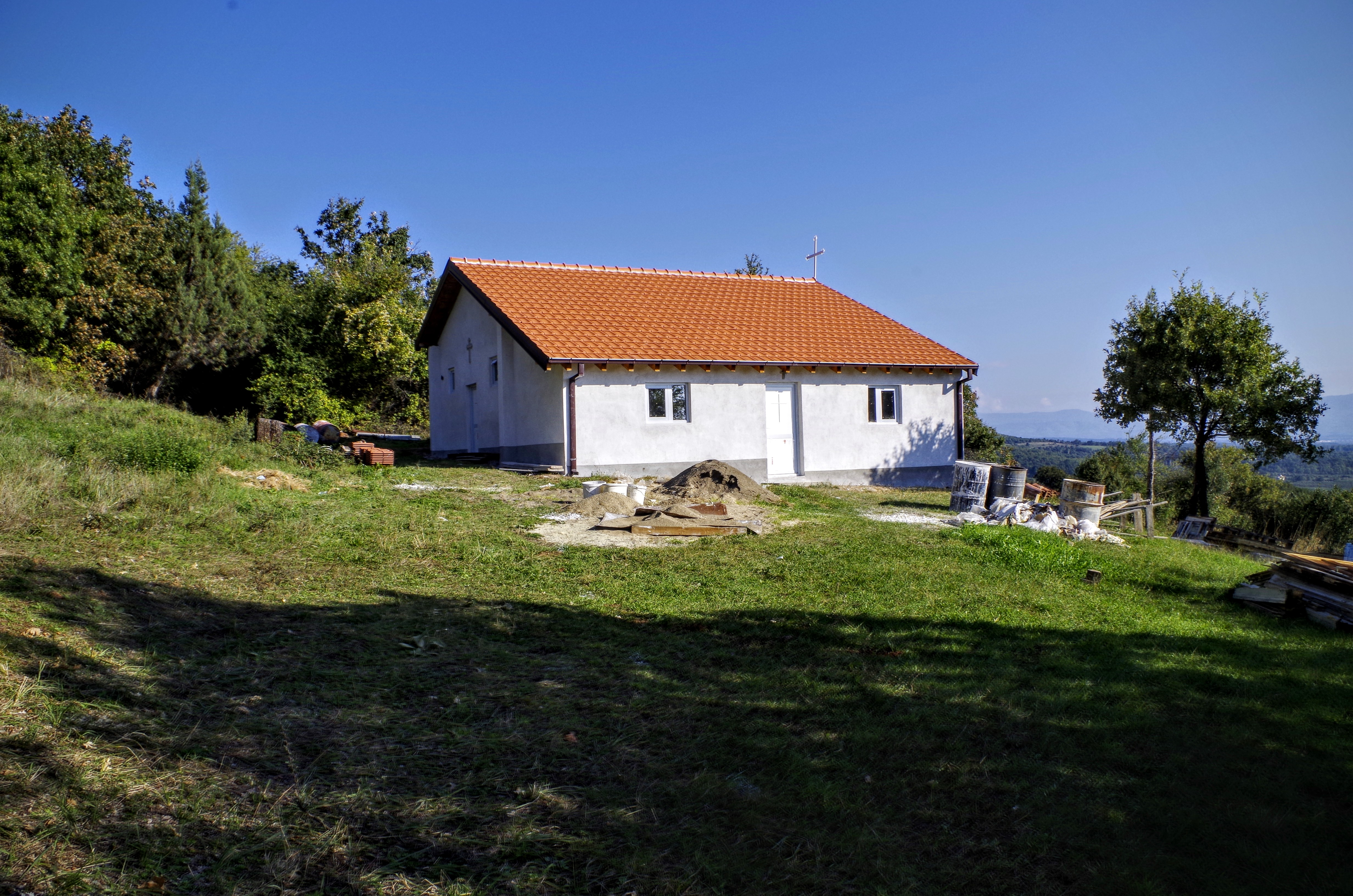 View of the St. Nicholas Church in the village Šurlenci